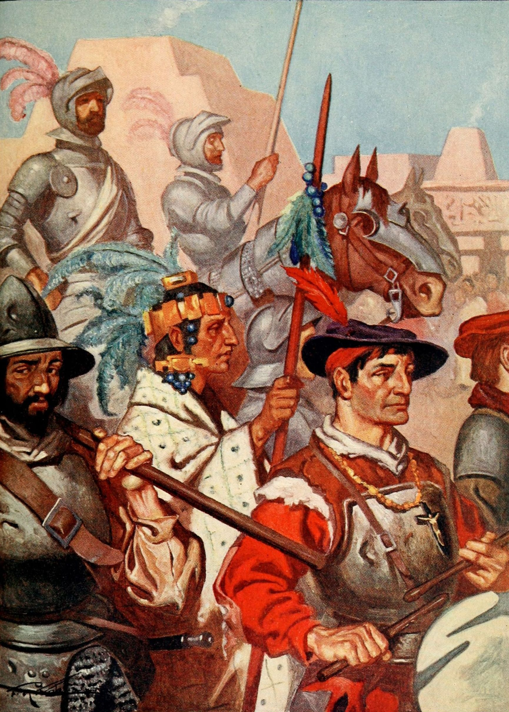 The conquistadors entered Tenochtitlan to the sounds of martial music